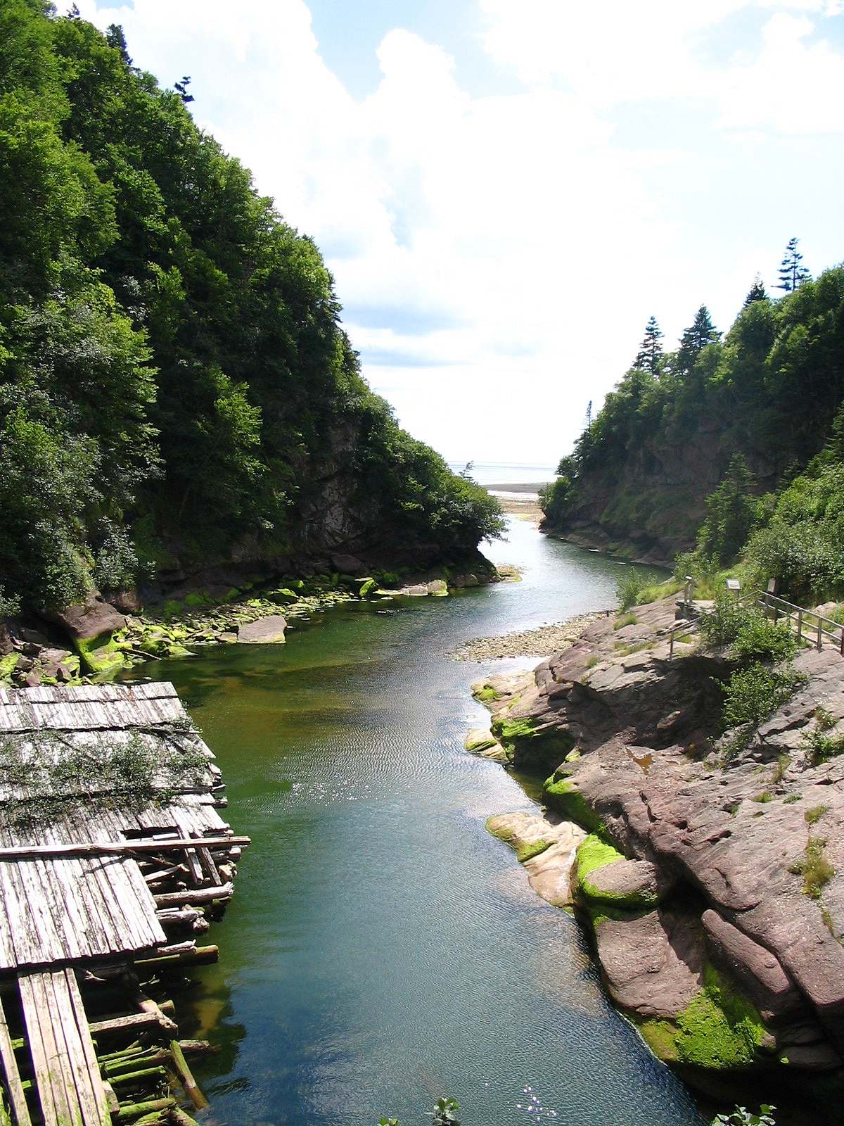 Fundy National Park, New Brunswick